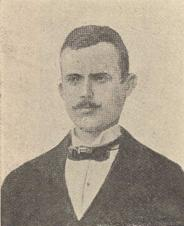 IMARO chetnik and bulgarian revolutionary Sotir Lozanov